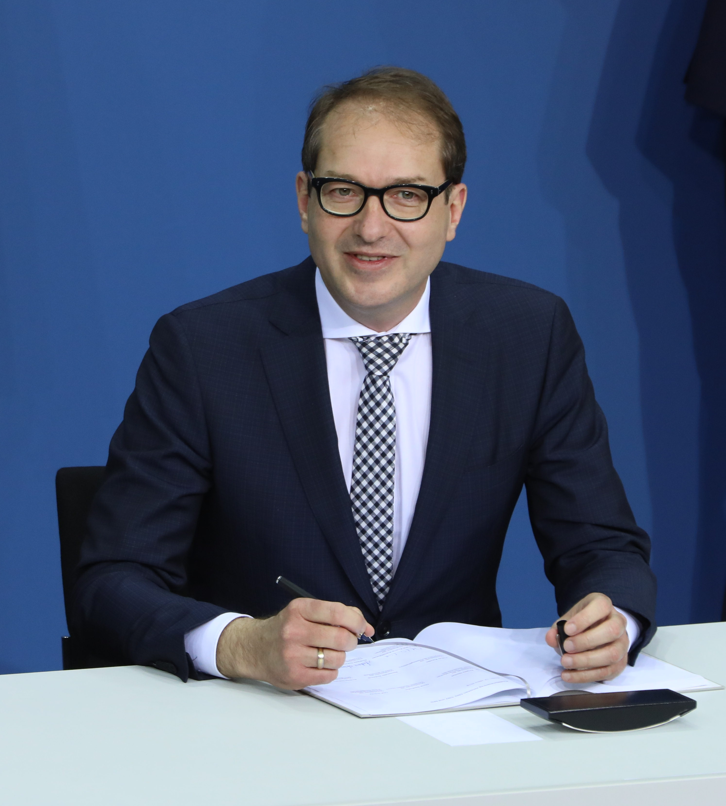 Signing of the coalition agreement for the 19th election period of the Bundestag: Alexander Dobrindt